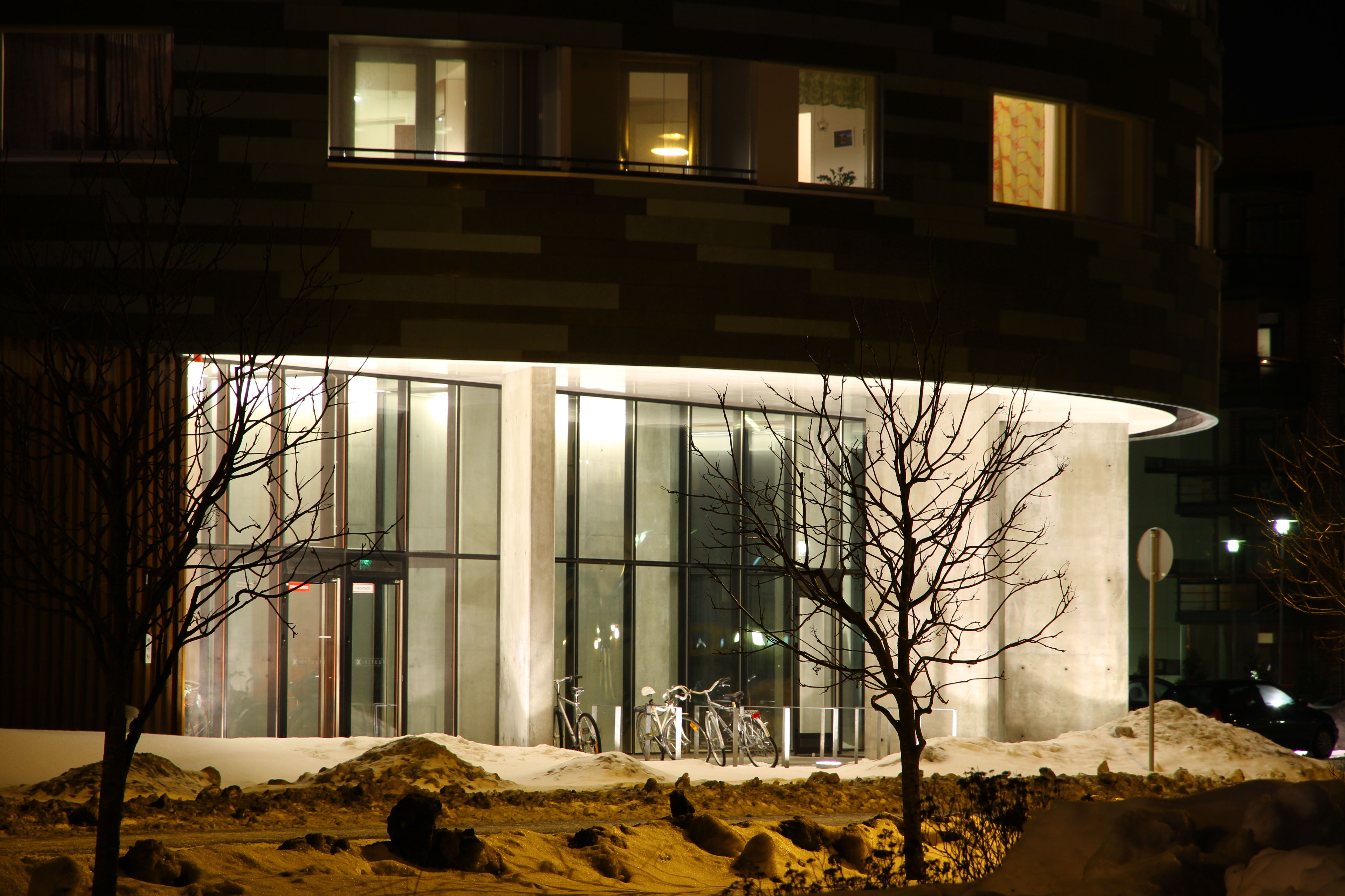 Ikituuri is an apartment building for students with 12 floors, totaling 43 meters in height. It is newest building project of the Student Village Foundation of Turku. Ikituuri is located in city of Turku, Finland.